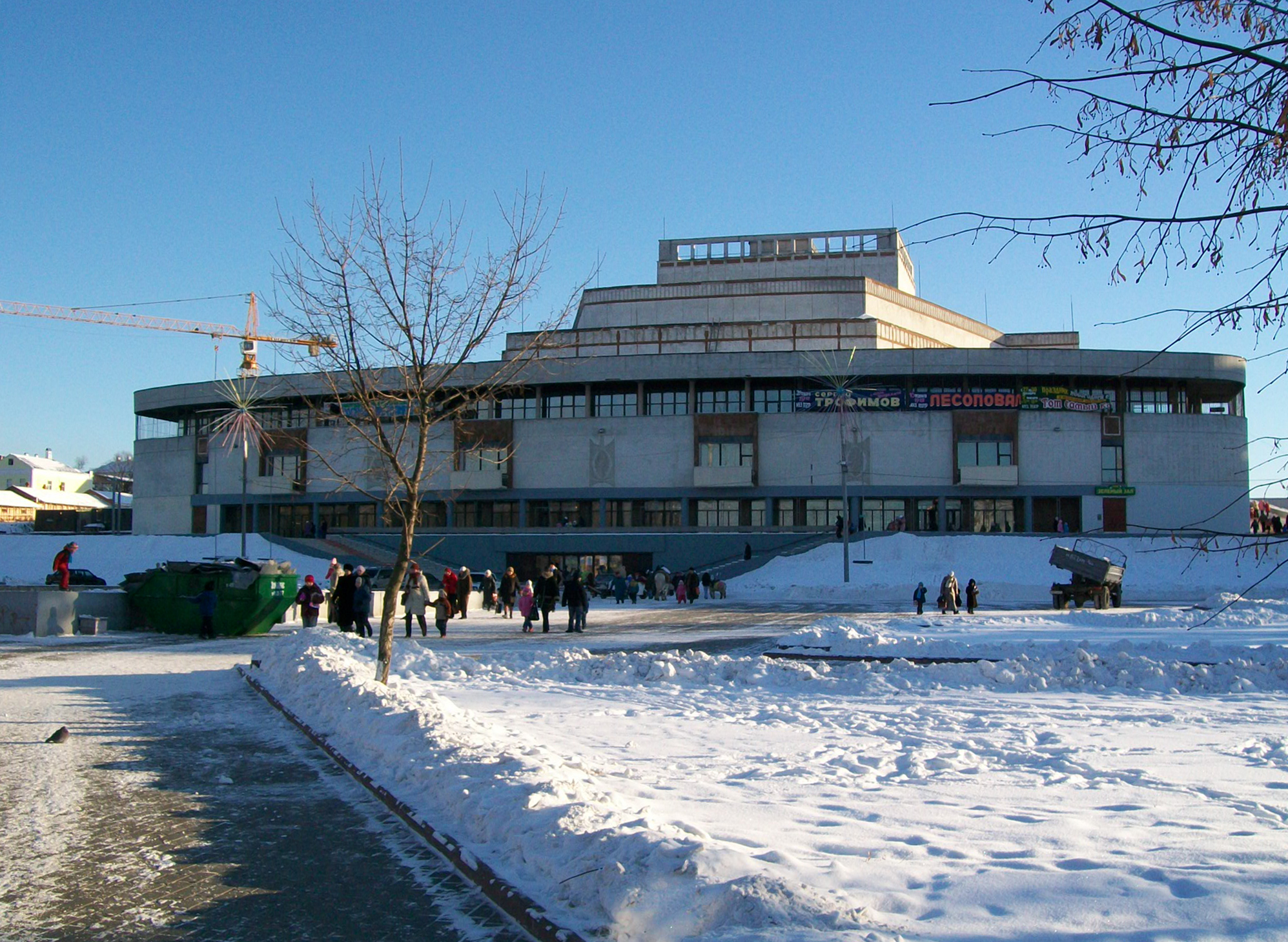 Ivanovo. Palace of arts